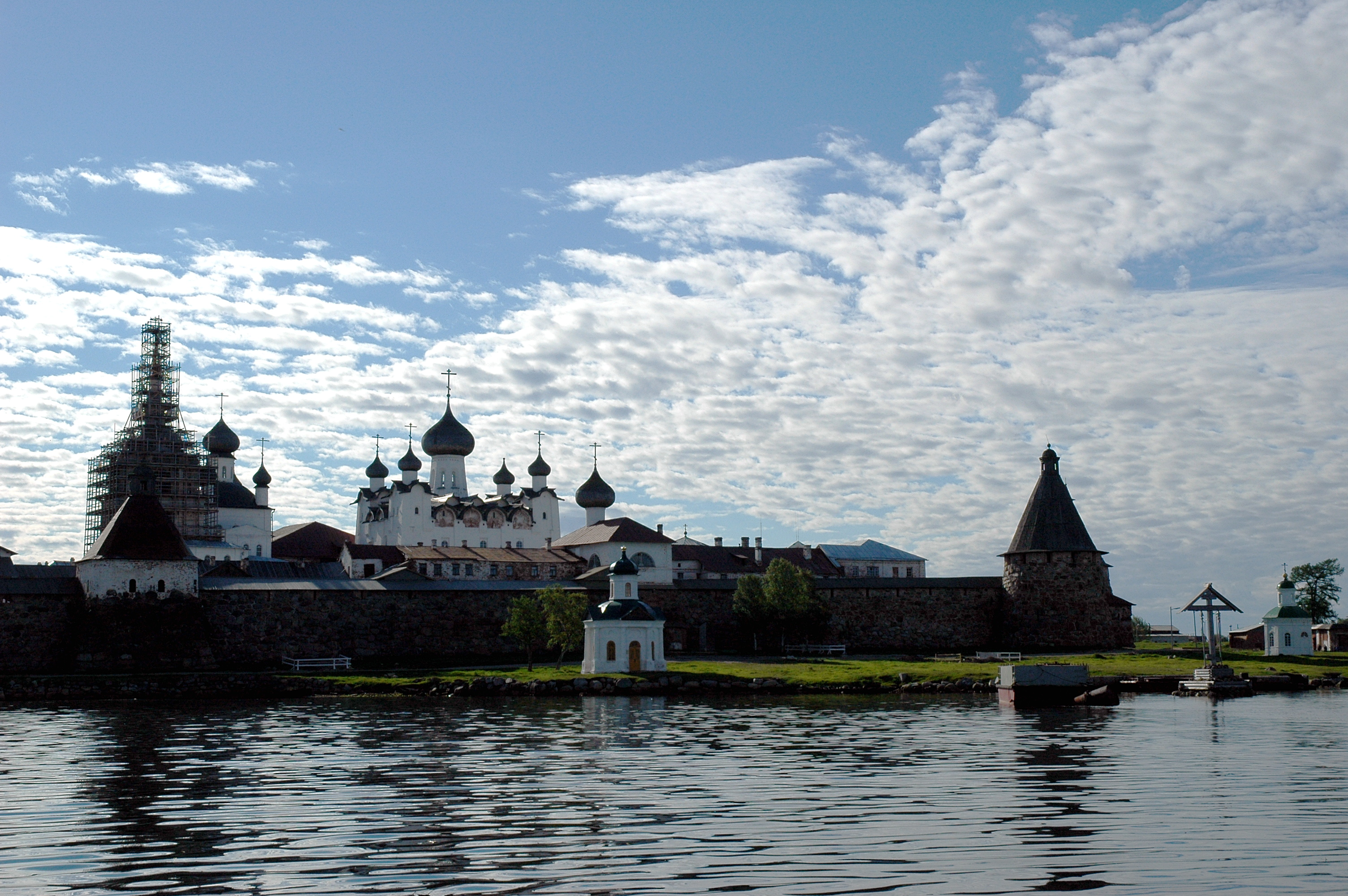 The Ensemble of the Solovetsky Monastery, Russia.